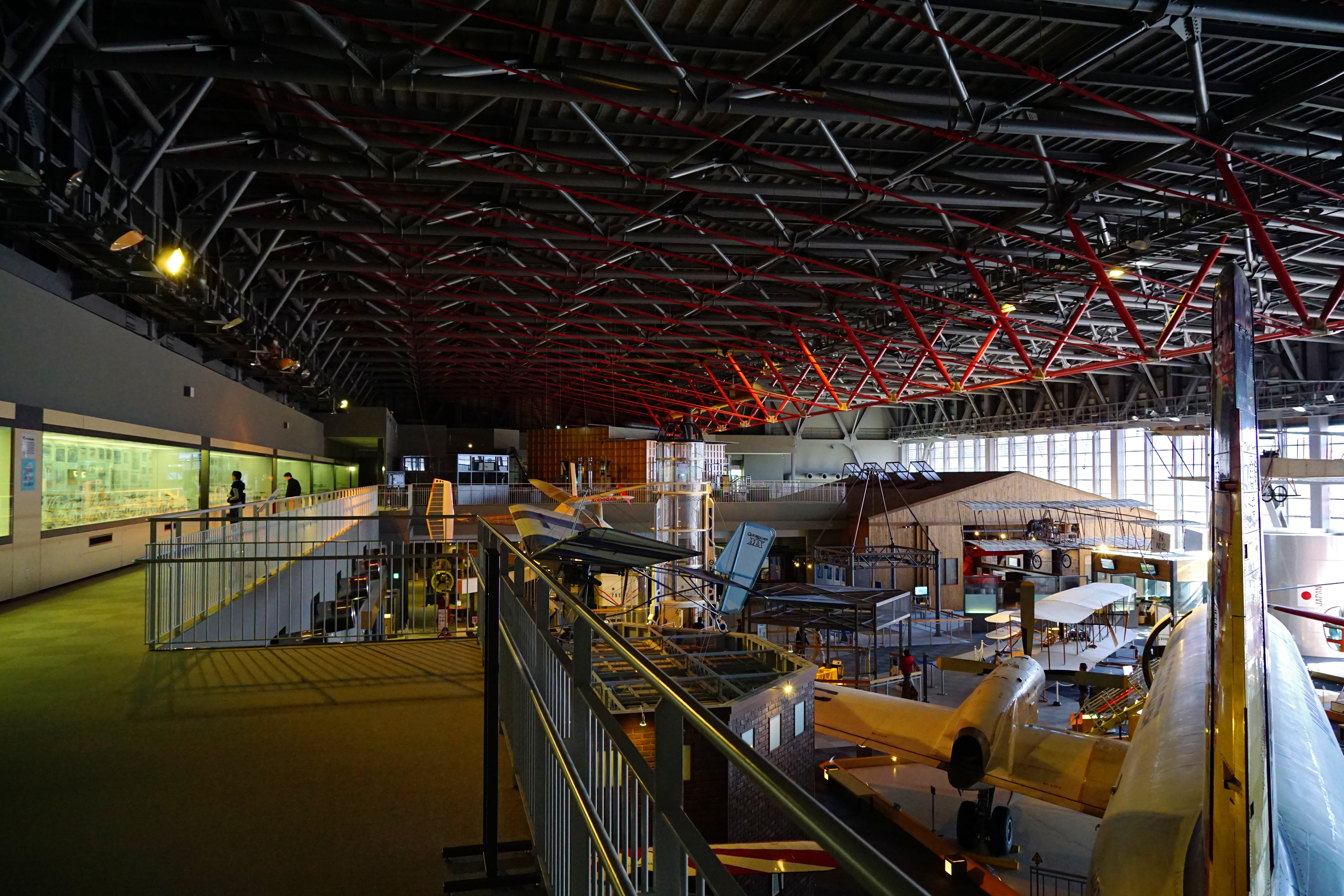 At Misawa Aviation & Science Museum, Aomori in Misawa, Aomori prefecture, Japan.